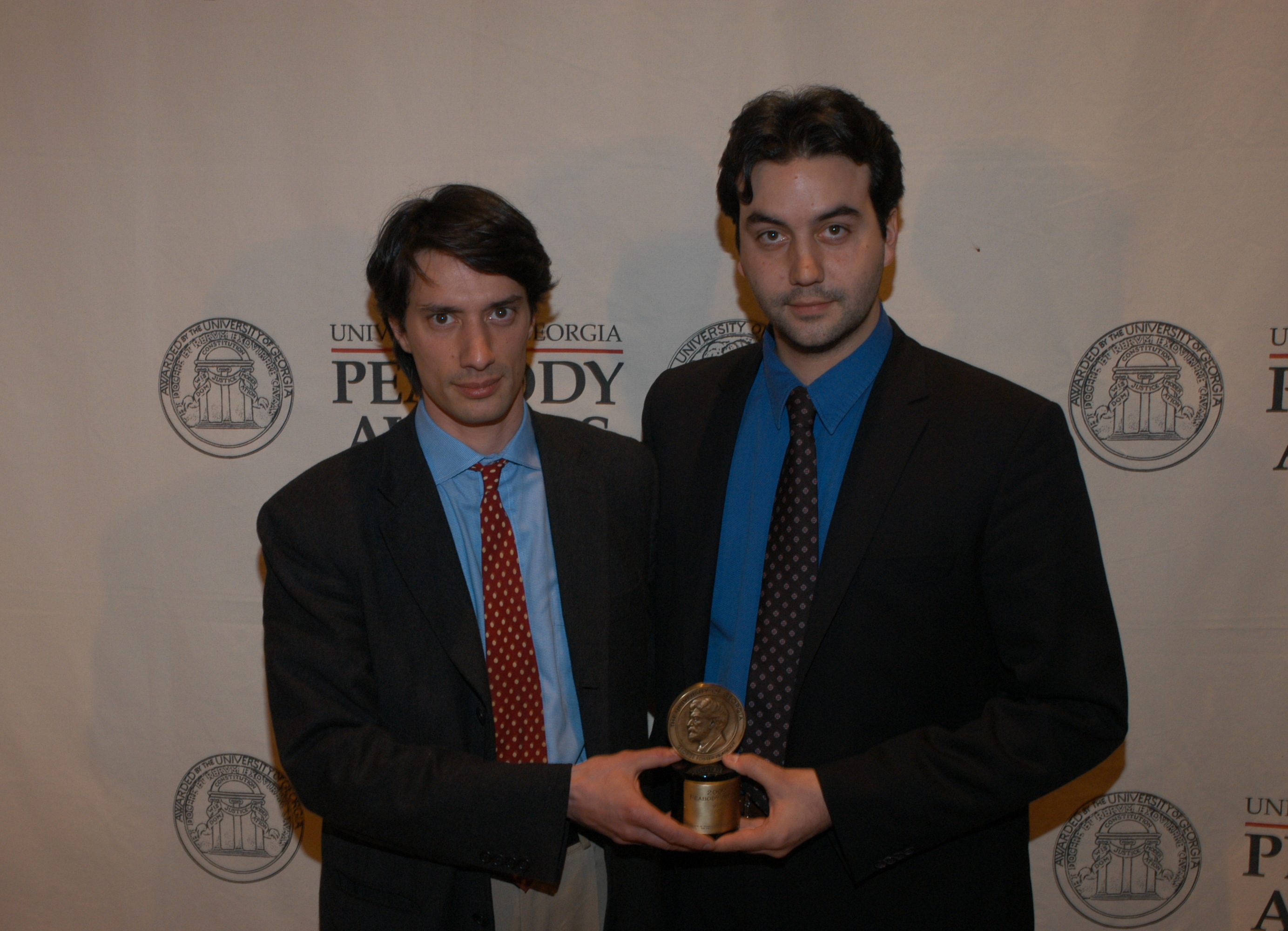 PHOTO CREDIT: ANDERS KRUSBERG / PEABODY AWARDS Gédéon Naudet and Jules Naudet at 62nd Annual Peabody Awards Luncheon Waldorf=Astoria Hotel May 19, 2003